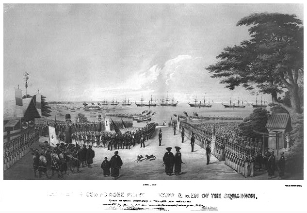 PERRY'S EXPEDITION TO JAPAN Landing of Commodore Perry, officers & men of the squadron, to meet the Imperial commissioners at Yoku-Hama July 14th 1853. Lithograph by Sarony & Co., 1855, after W. Heine. (from Pictorial Americana) Yoku-Hama;Yokohama?